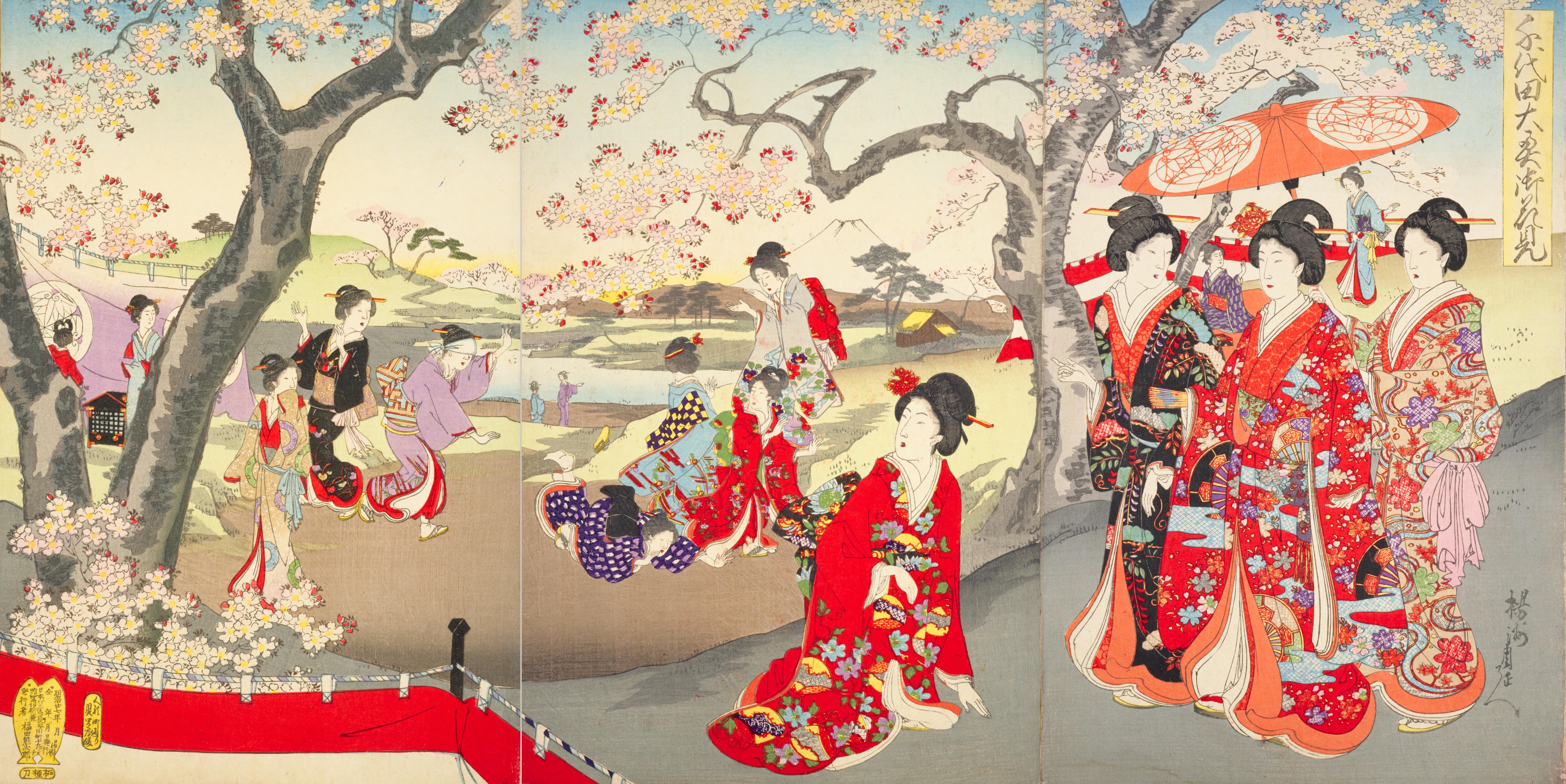 A triptych in the ukiyo-e style depicting a Hanami (flower-viewing party) in the Ōoku (harem) of the Edo Castle at Chiyoda.